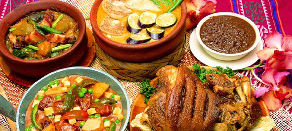 Philippine Food